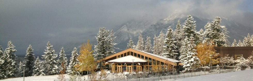 A photo of the TransCanada PipeLines Pavilion, home of the Banff International Research Station's lecture facilities.